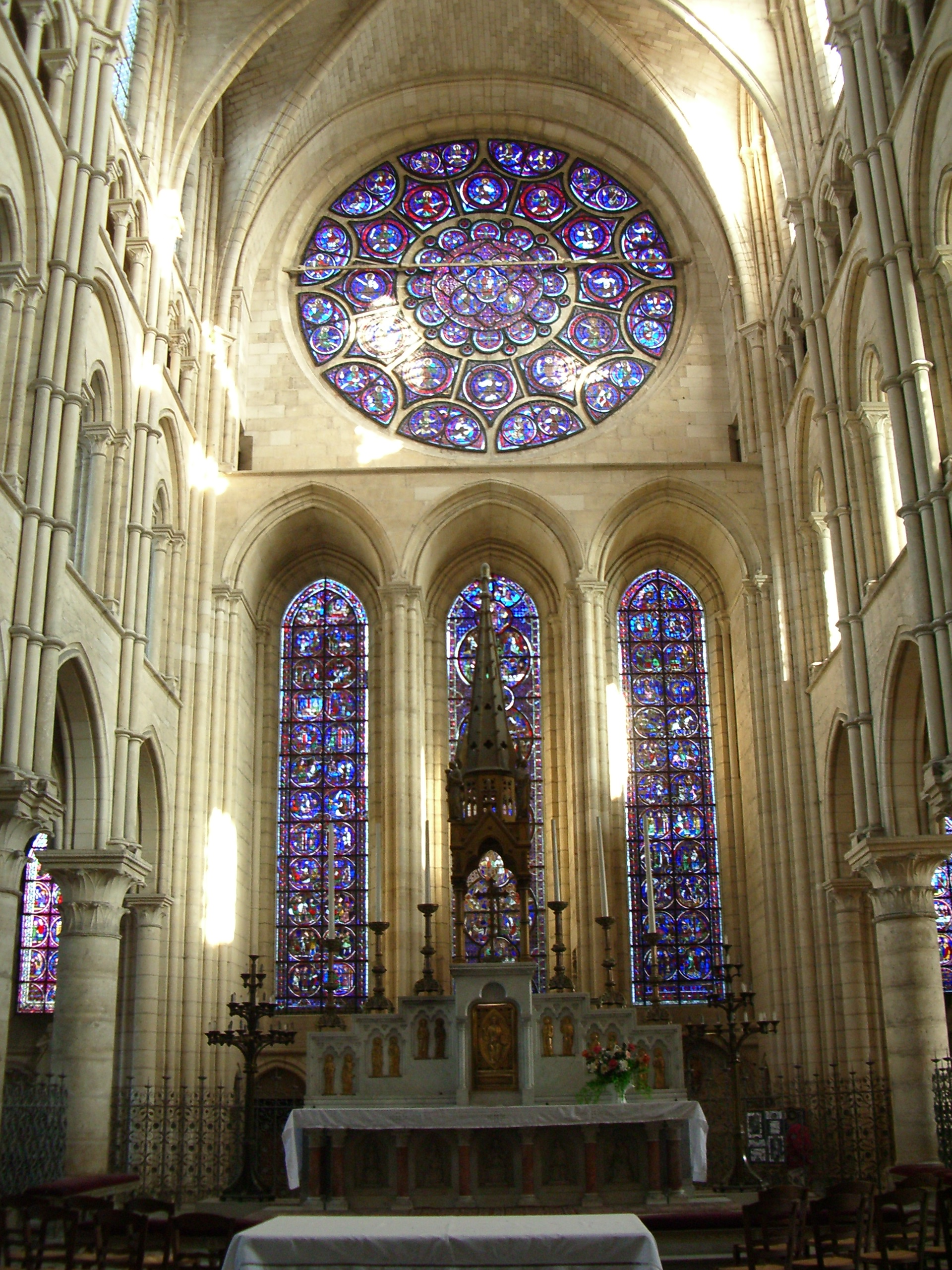 Inside the Laon's cathedral, Aisne, France